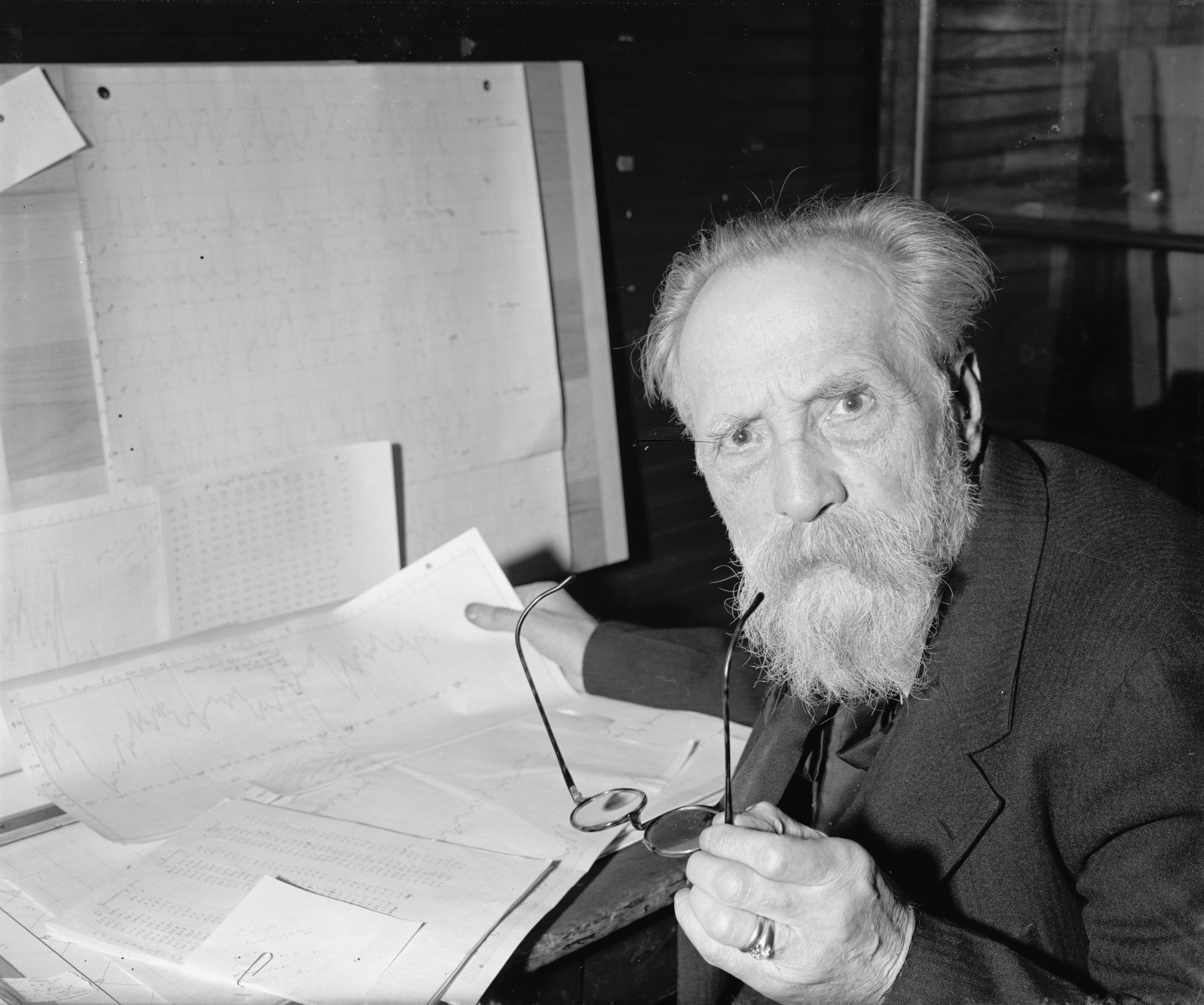 TITLE: Veteran Polish weather expert joins staff of Smithsonian Institution. Washington, D.C., March 14. With home, laboratory, and invaluable records of years presumably lost in the recent Polish War, Dr. Henryke Arctowski, of the University of Llov, one of Poland's foremost scientists and former Antarctic explorer, has started at the Smithsonian Institution the monumental job of determining direct effects of changes in the Sun's radiation on weather conditions on Earth. Recognized in all countries as one of the greatest living authorities on world weather, Dr. Arctowski is continuing his studies in efforts to find relationships between solar conditions and rainfall, barometric pressure, etc., at various places on Earth. His earliest meteorlogical observation began as a young geologist on the Antarctic exploring ship Belgica in 1897-99. For release morning papers of March 18 - 40